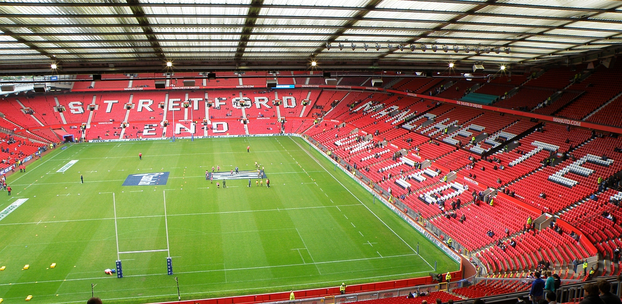 Old Trafford - the pitch before a rugby match Argentina vs England.